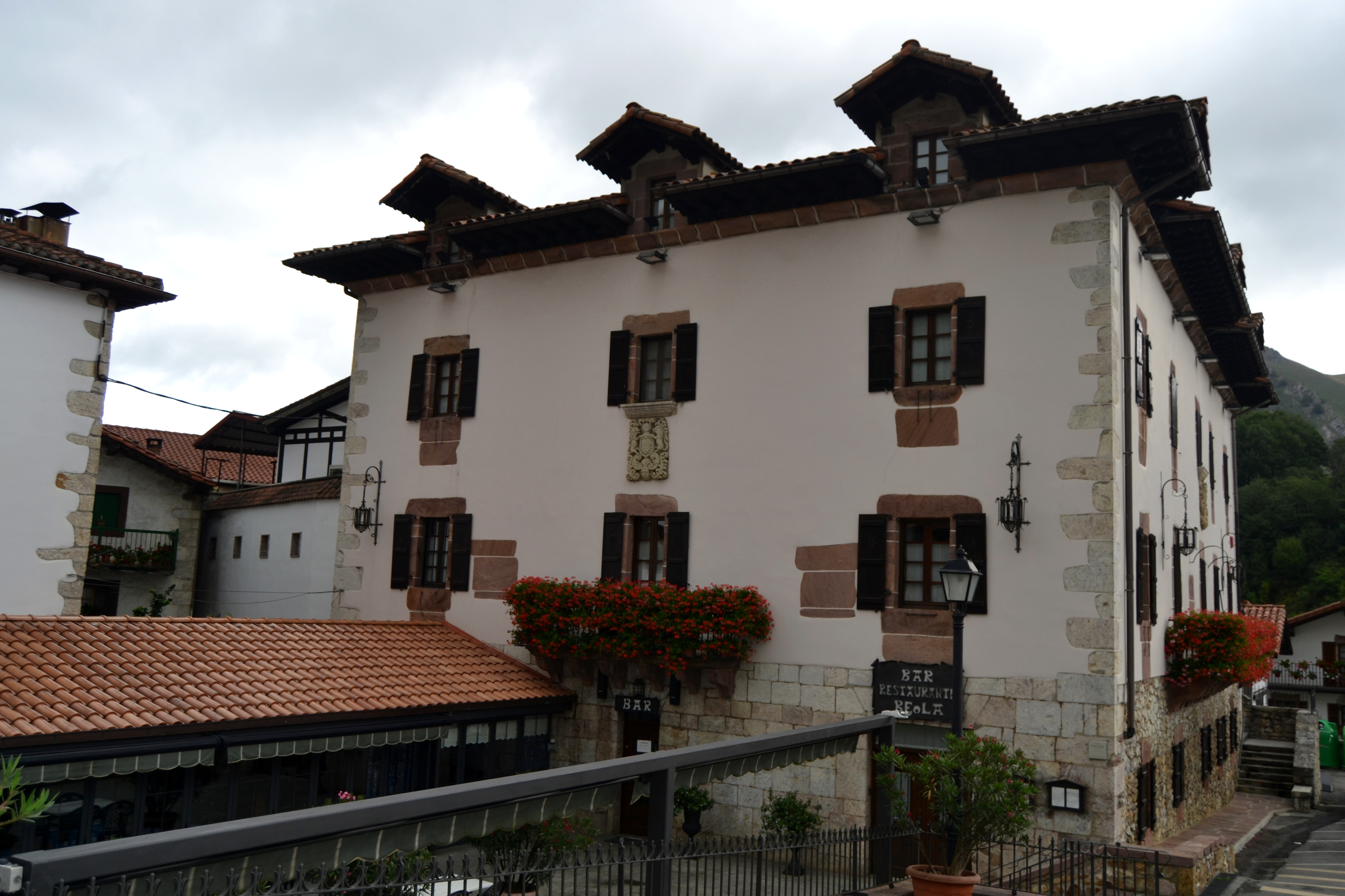 Galtzada or Beola palace, Almandoz, Baztan. Navarre, Basque Country.